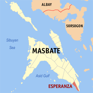 Map of Masbate showing the location of Esperanza